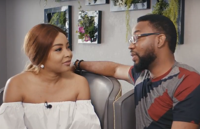 Linda Ejiofor-Sulieman and Ibrahim Sulieman